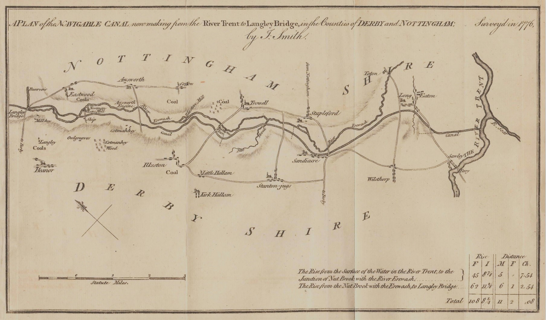 The Erewash Canal as surveyed by J.Smith in 1776. Published in 1777